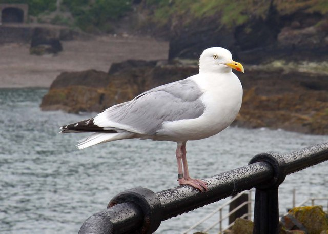 A seagull at Ilfracombe